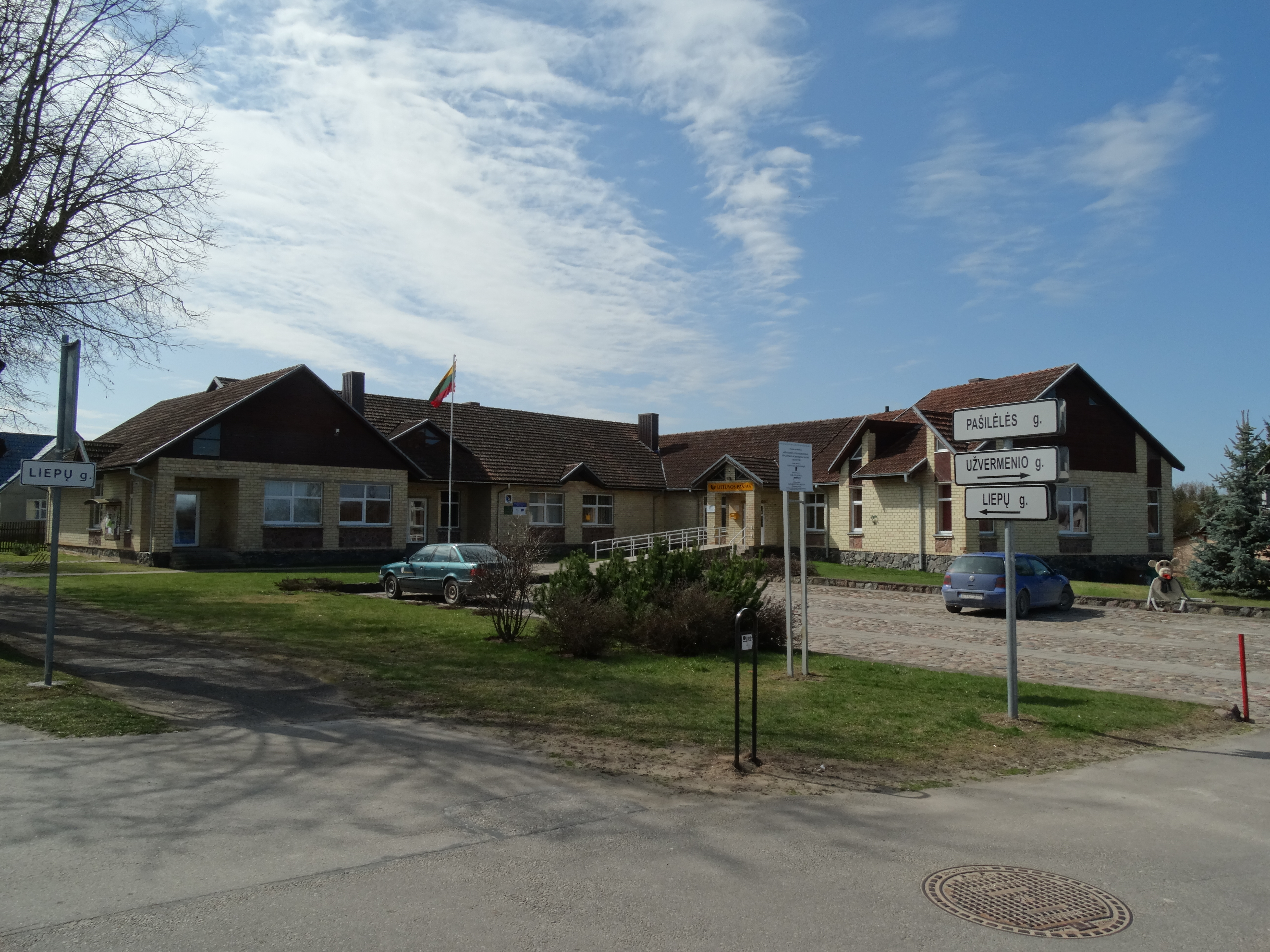 Eldership, Pavermenys, Kėdainiai District, Lithuania